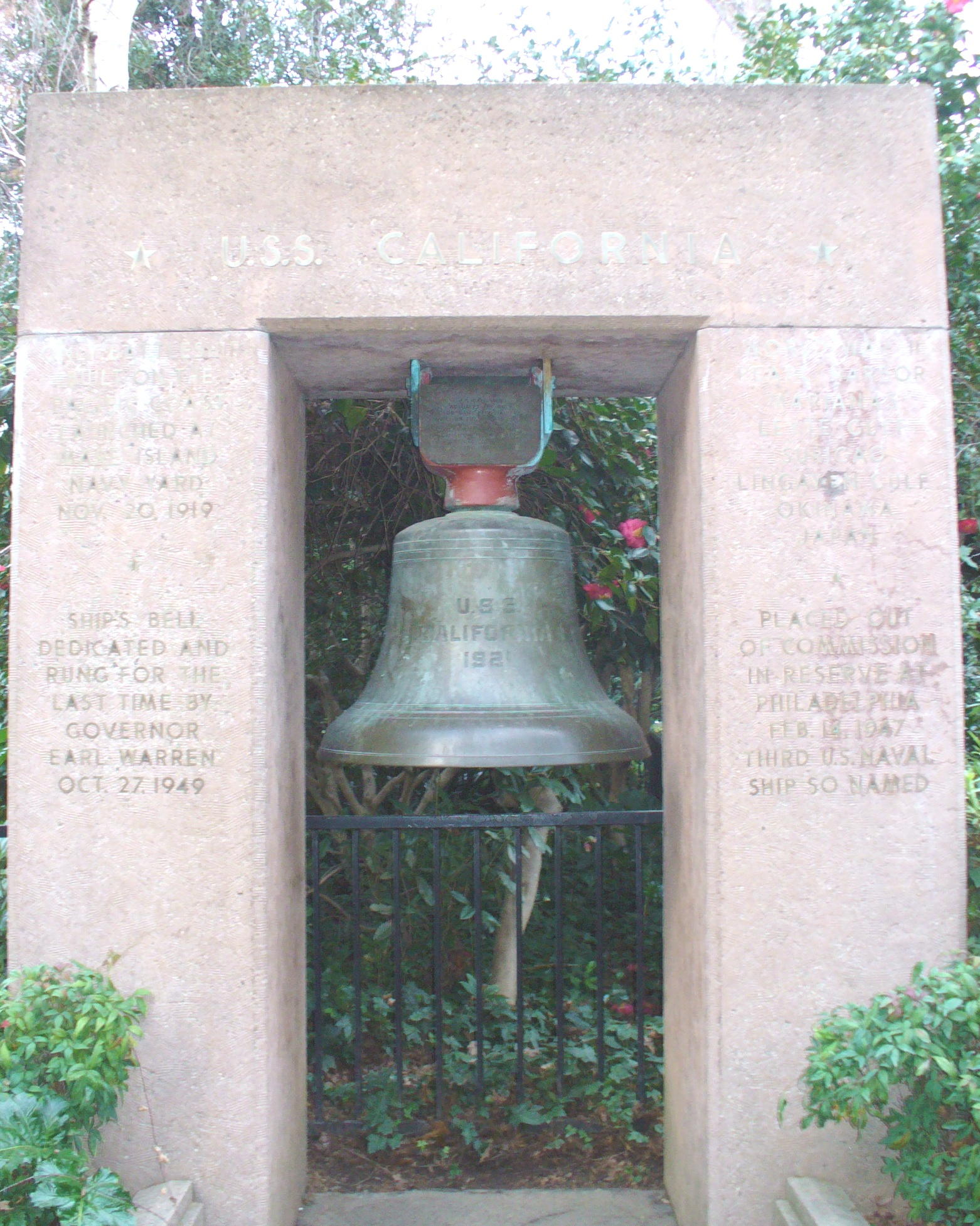 This bell is from the USS California (BB-44). It is on display at the California State Capitol Museum.